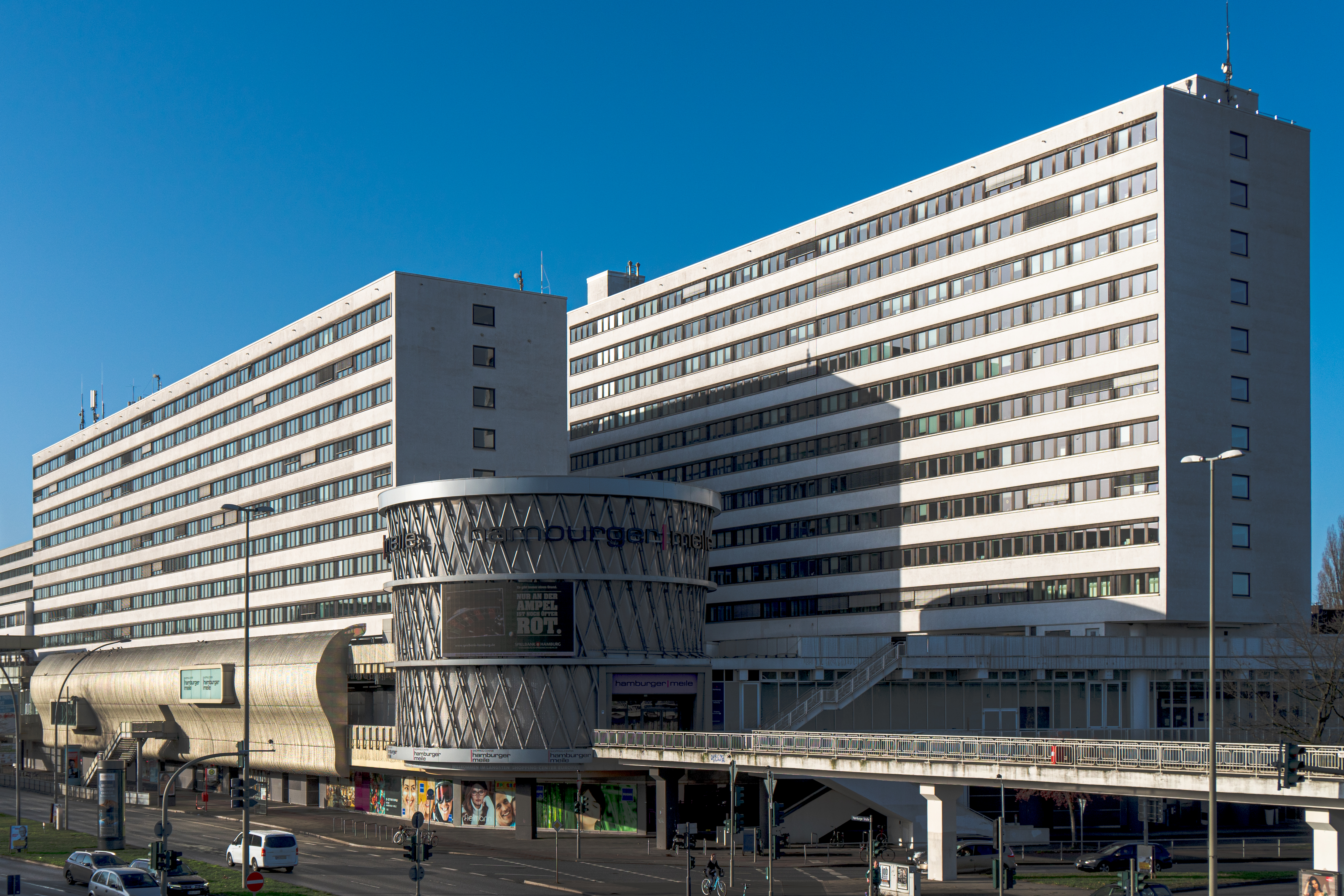 The picture shows two buildings housing parts of the State Ministry of Labour, Social and Family Affairs and Integration in Hamburg, Germany which are situated on top of the shopping mall Hamburger Meile.